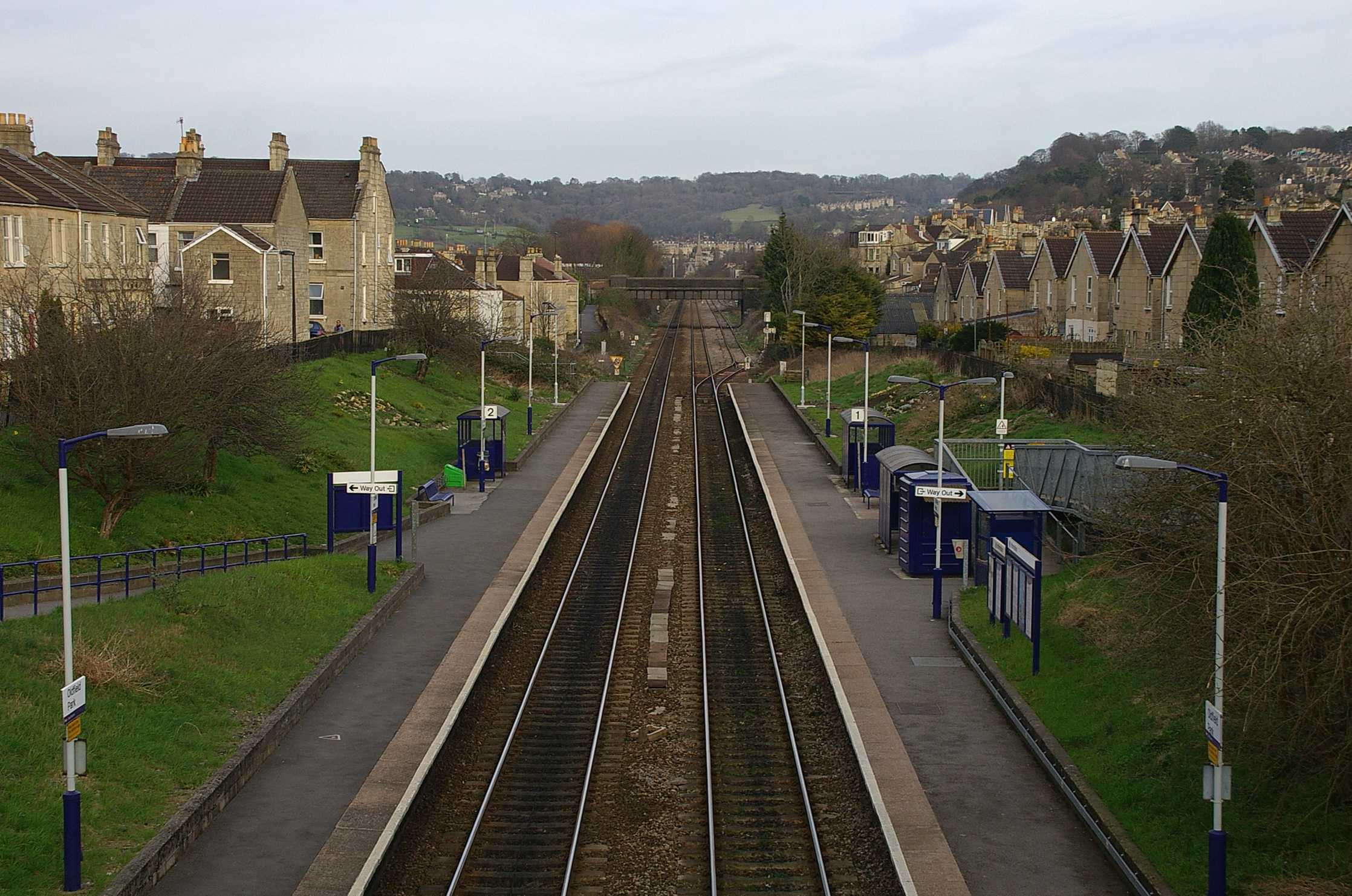 Oldfield Park railway station in Bath, looking east.